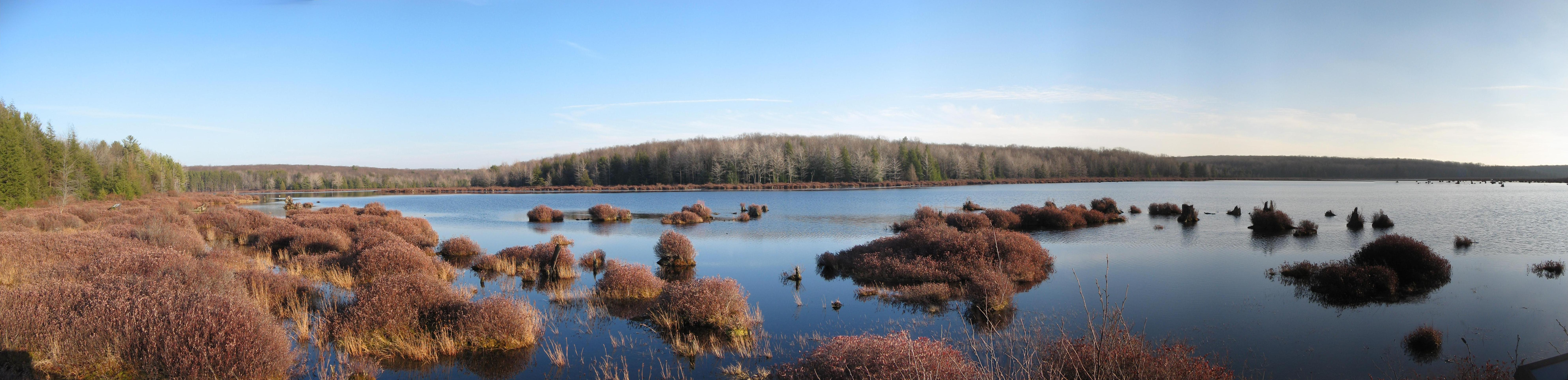 Panorama of bog and lake at Black Moshannon State Park, near Phillipsburg, Rush Township, Centre County, Pennsylvania, USA.